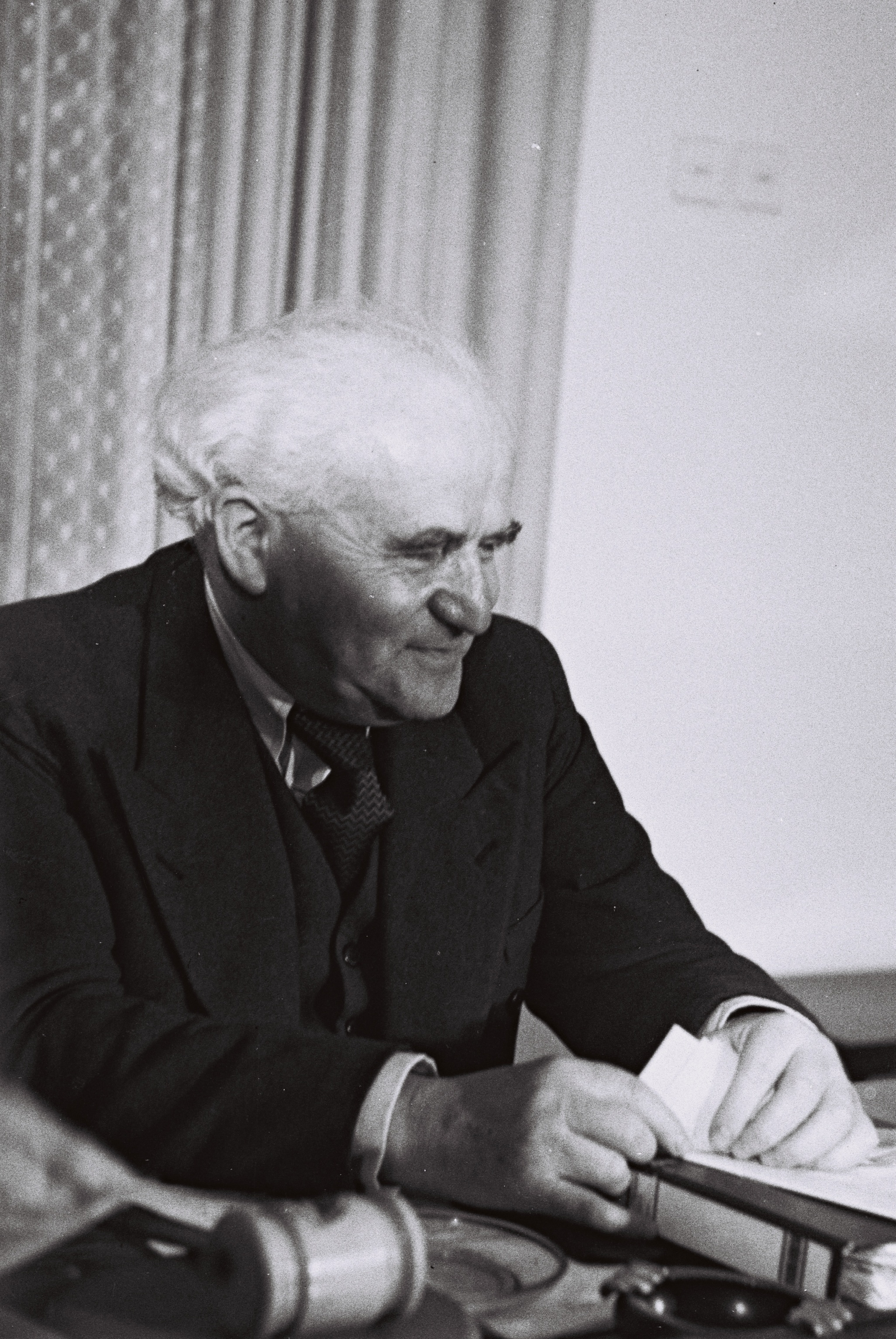 Prime Minister David Ben-Gurion in his office; 19. 1. 1949